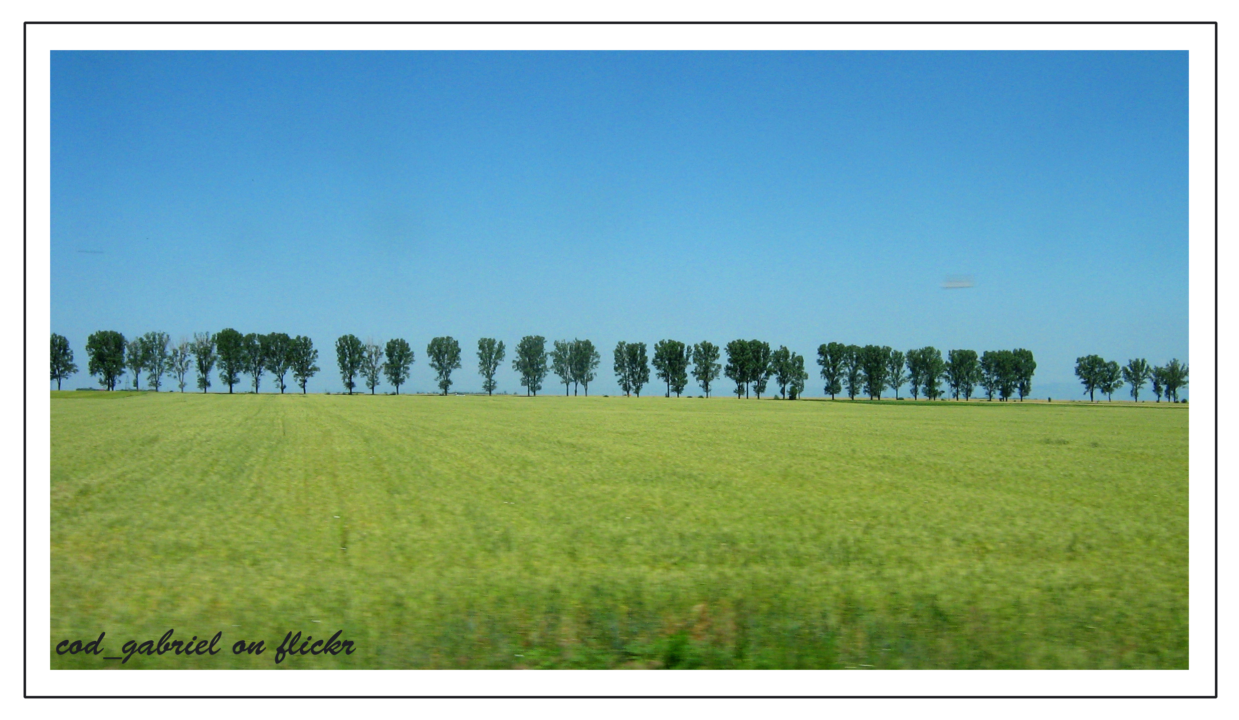 View of the Bărăgan plain